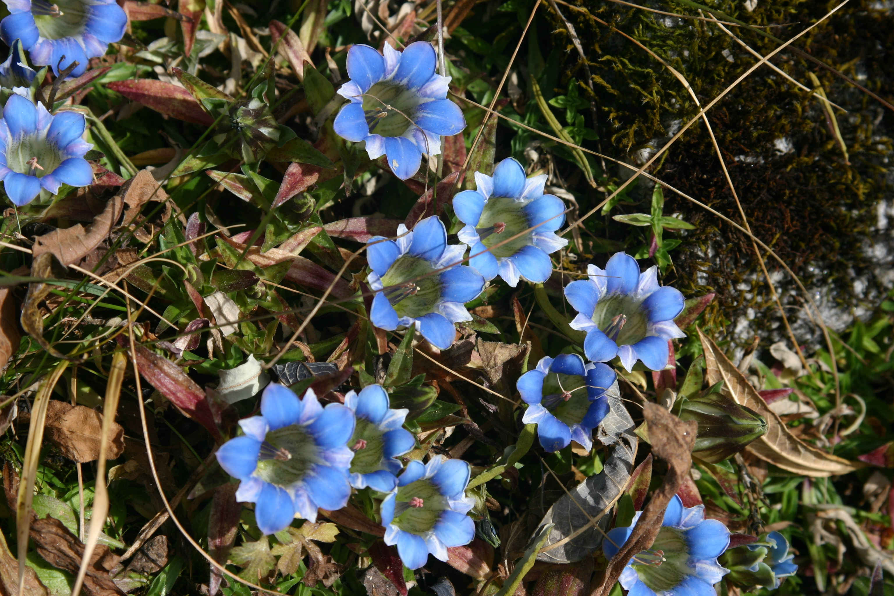 Gentiana Depressa Growing at around 3500m in the Myagdi Khola valley near Dhaulagiri in Nepal